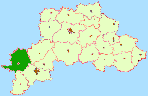 Mogilev Region map by Al Silonov